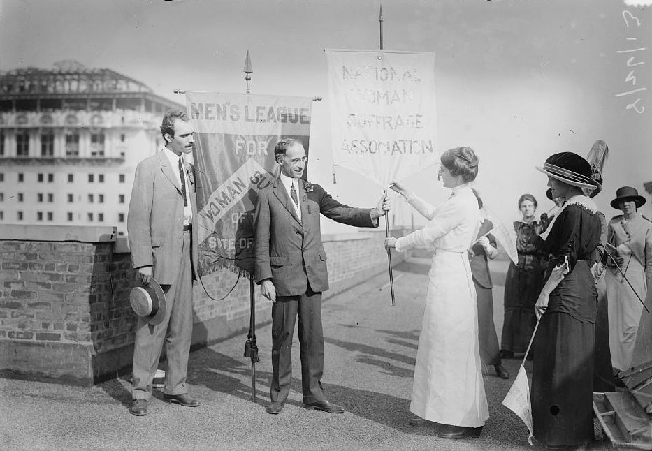 Robert Cameron Beadle Bain News Service,, publisher. Beadle - Brown - Bjorkman [between ca. 1910 and ca. 1915] 1 negative : glass ; 5 x 7 in. or smaller. Notes: Title from unverified data provided by the Bain News Service on the negatives or caption cards. Forms part of: George Grantham Bain Collection (Library of Congress). Format: Glass negatives. Repository: Library of Congress, Prints and Photographs Division, Washington, D.C. 20540 USA, General information about the Bain Collection is available at Persistent URL: Call Number: LC-B2- 2810-14